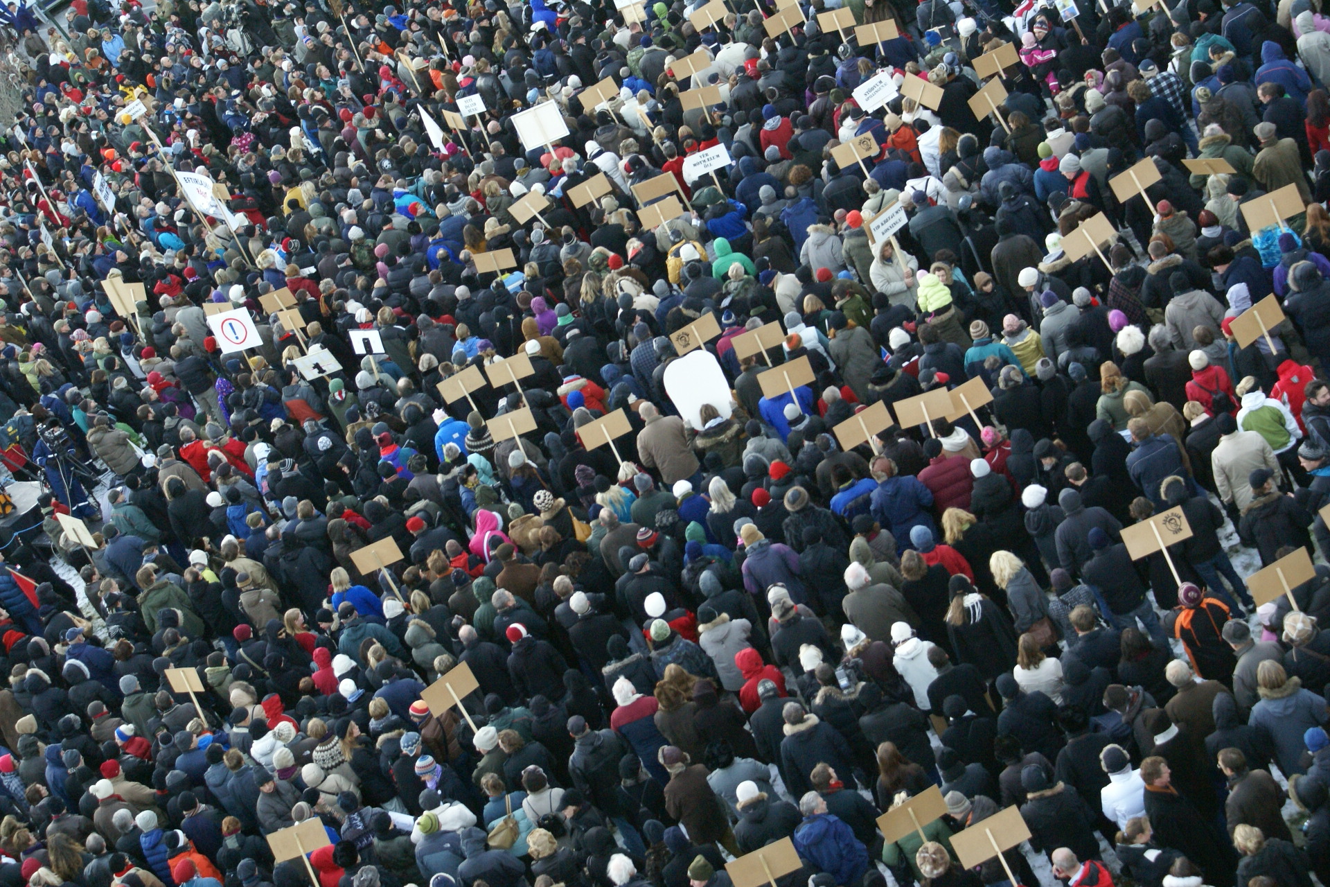 Week 6. Protesters at Austurvöllur some 9000.The Kitchenware-Revolution in Iceland was organize by Hördur Torfason and "Raddir Fólksins". It started in the wake of the collapse of the banking system followed be the decimation of Icelandic economy in the beginning of October 2008. It resulted in the resignation of Geir H. Haarde and his cabinet on January 26. 2009.The protest meetings were held every Saturday at the Austurvöllur square in front of Alþingishús - the Icelandic parliament house. The first meeting (week 1) was dated Saturday 11. October 2008. The 16th meeting dated January 24. 2009